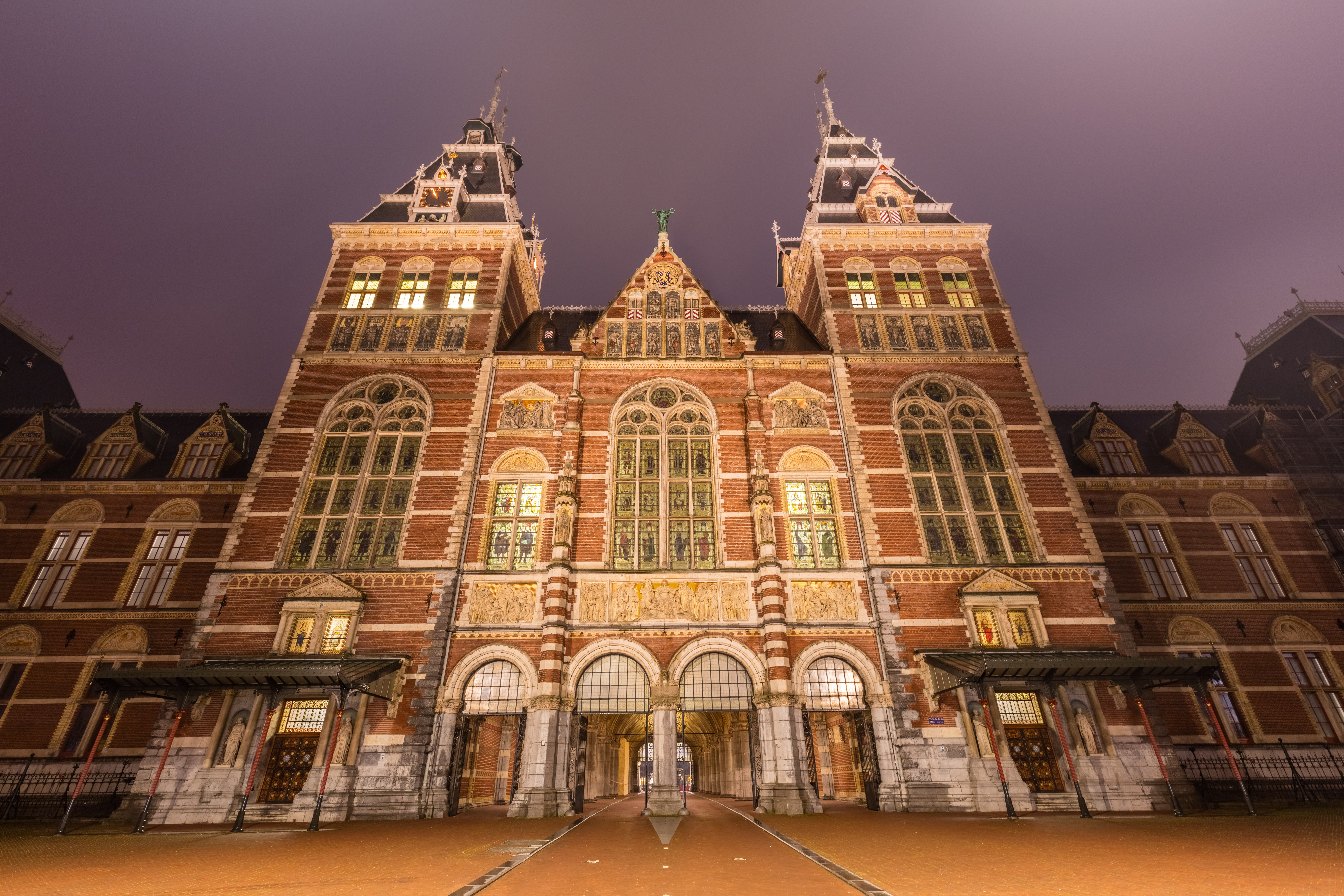 National Museum, Amsterdam, Netherlands